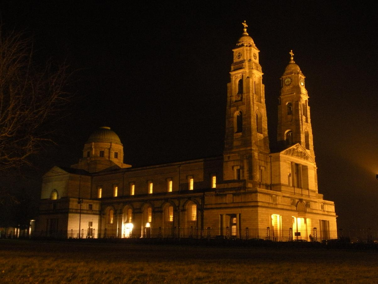 Christ the King Cathedral in Mullingar at night1